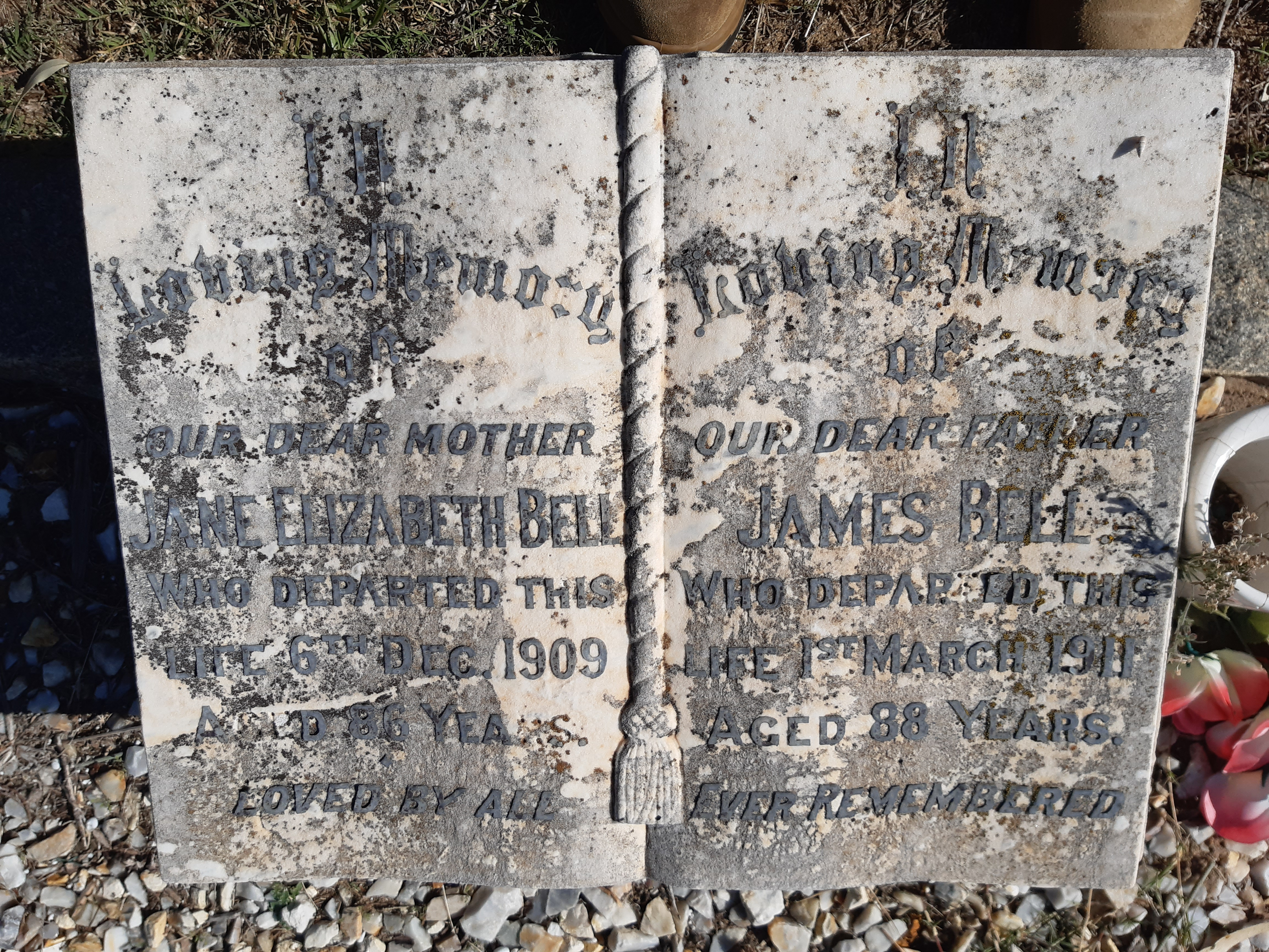 Grave of James and Jane Bell, East Rockingham Pioneer Cemetery, Western Australia. The Bells were early pioneers in the area and built the historic Bell Cottage, now a ruin.